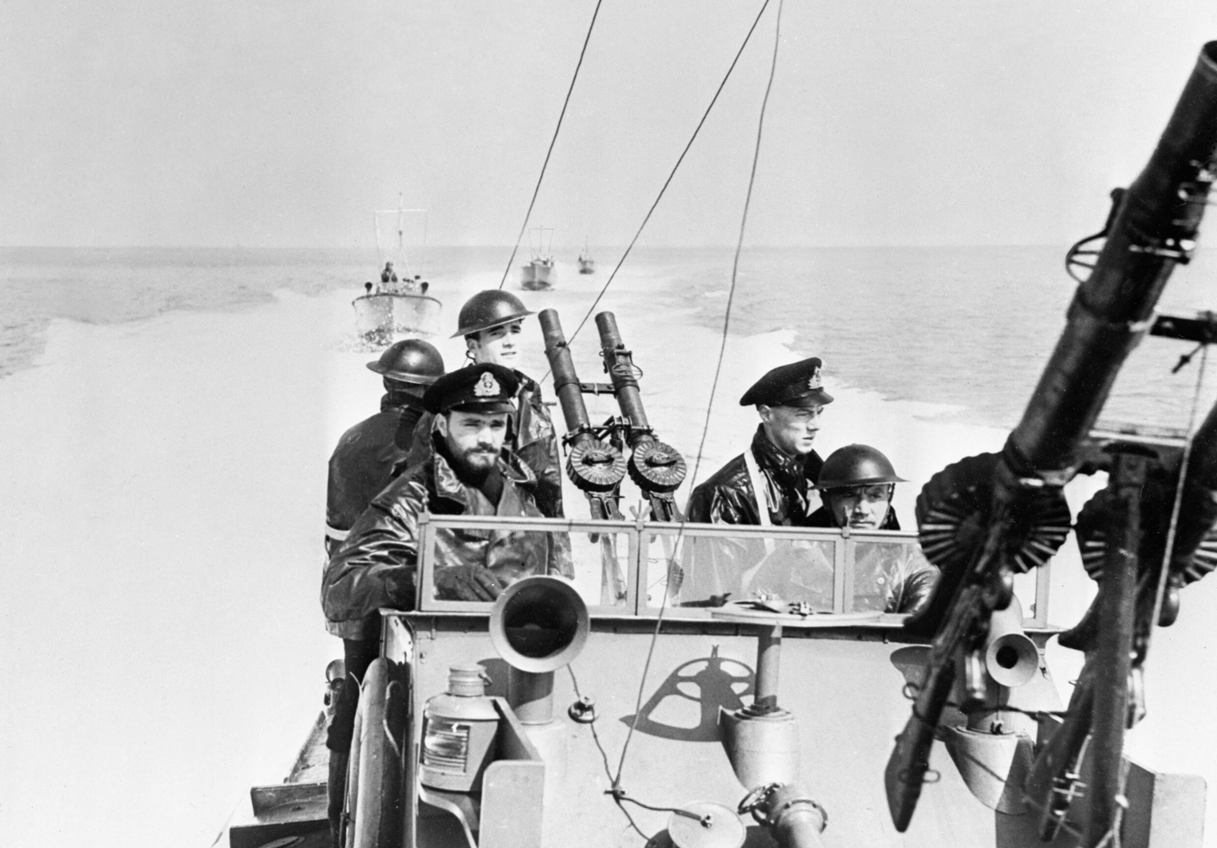 Royal Navy Motor Torpedo Boats on patrol, 1940. MTB's in line ahead, showing crew of the lead MTB.